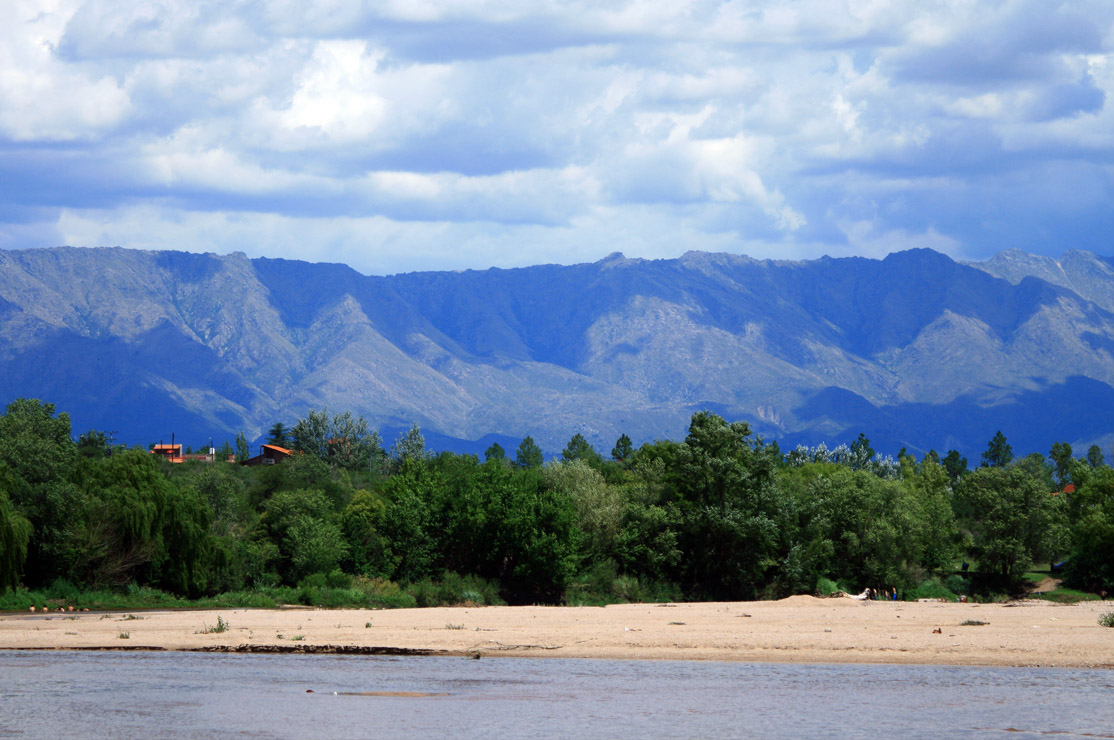 Mina Clavero Cordoba Argentina